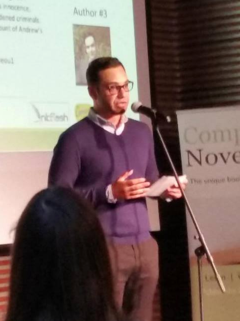 Symeou giving speech at the CompletelyNovel Big Book Launch